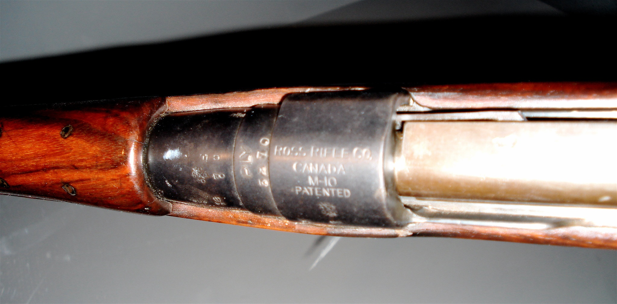 Canadian Ross Rifle, displayed at the Royal Canadian Regiment Military Museum in London, Ontario. The museum label states this is the Mk.1 version of the rifle, but the stamp on the rifle itself indicates that this is the M-10 version (i.e. Mk. 3). Photo taken on August 10, 2006. Source: Photo by me, User:Balcer.